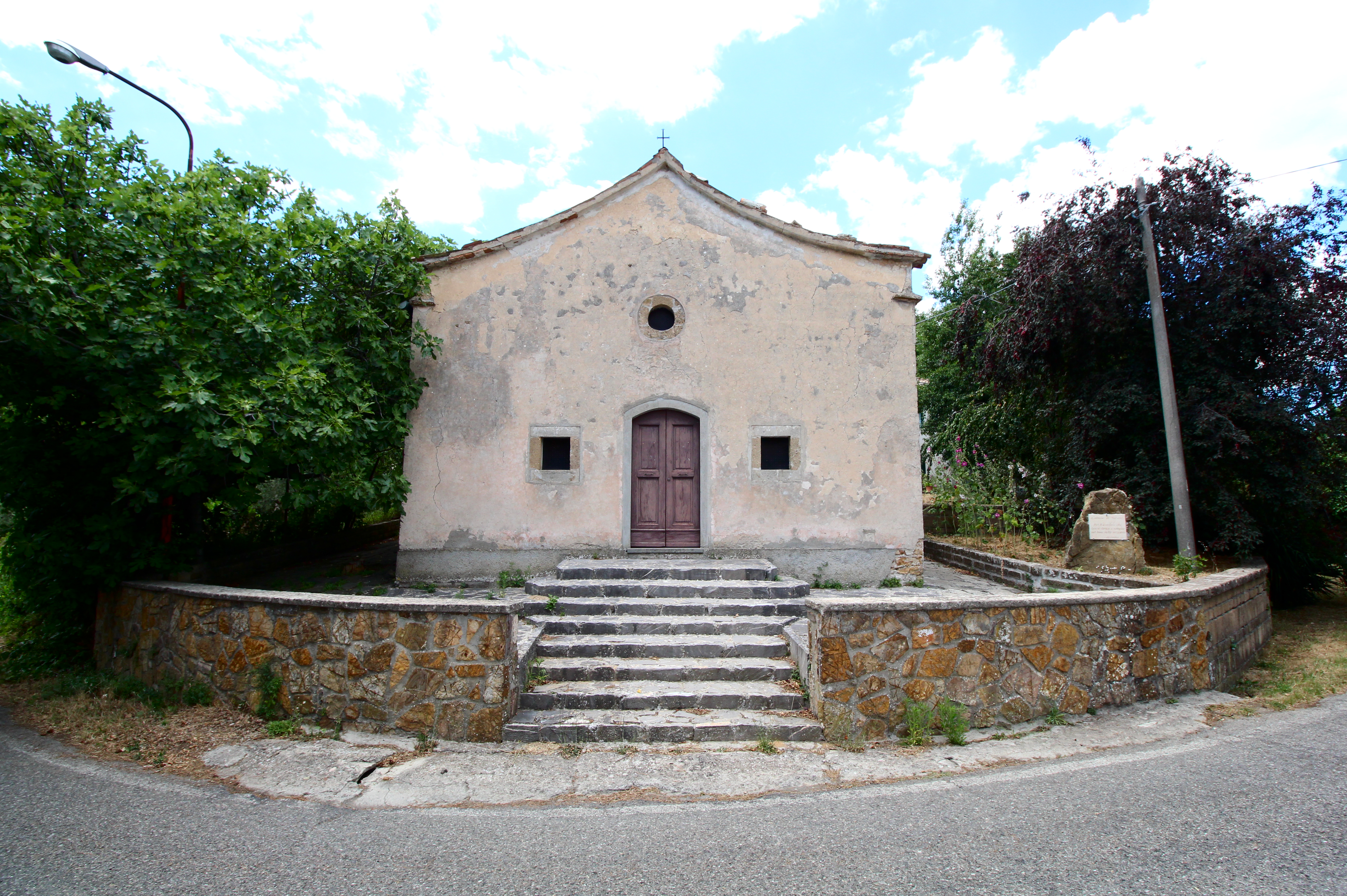 Church Madonna del Cerro, Montebuono (Dispensa), hamlet of Sorano, Province of Grosseto, Tuscany, Italy